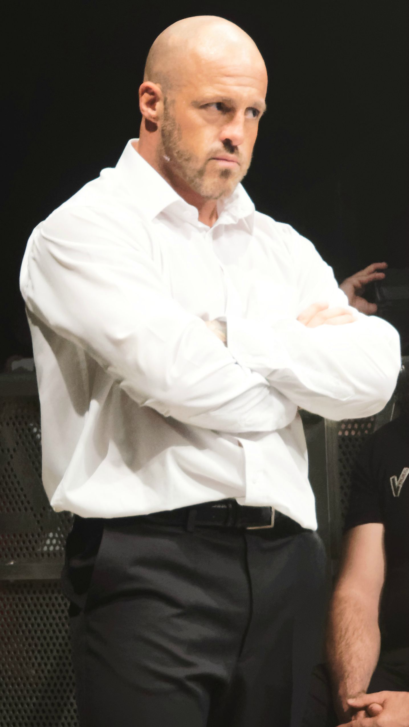 Joey Mercury during a WWE live event in April 2015.